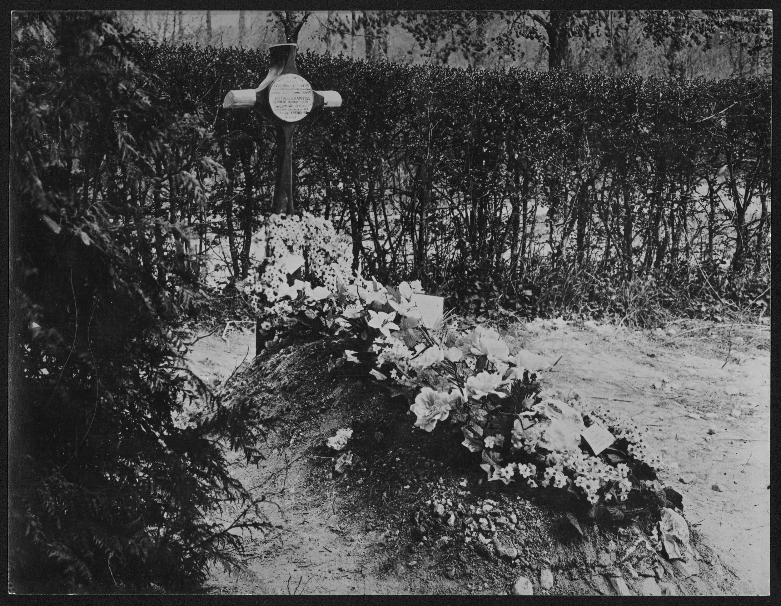 Red Baron's grave, Sailly le Sec, France, 1918. The grave of Manfred von Richthofen (1892-1918), better known as the 'Red Baron'. Richthofen was a cavalry officer who became the most famous of all the World War I fighter pilots, bringing down a total of 80 Allied aircraft. He was shot down on 21 April 1918 and the British buried him in France with full military honours. This photograph appears to have been taken soon after the burial as the earth is still freshly dug and there are wreaths over the grave. The card on the nearest wreath bears the words, 'Royal Air Force', a reminder that for the pilots, the war in the air was like a series of very personal duels. [Original reads: 'Grave of German Airman - Baron Von Richthofen at Sailly le Sec, Somme.']